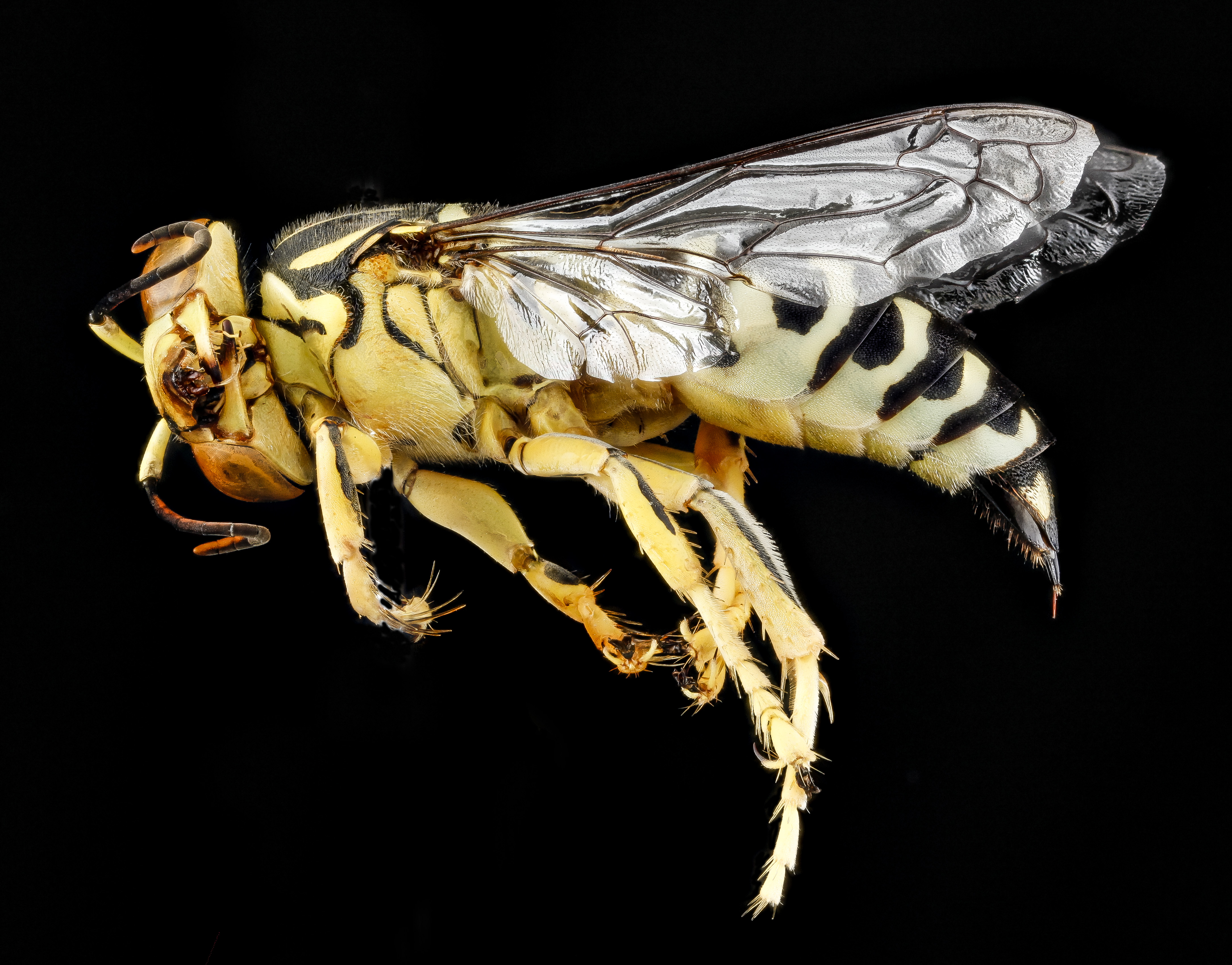 Stictia signata, female, Sand Wasp...hunts flies for its nest